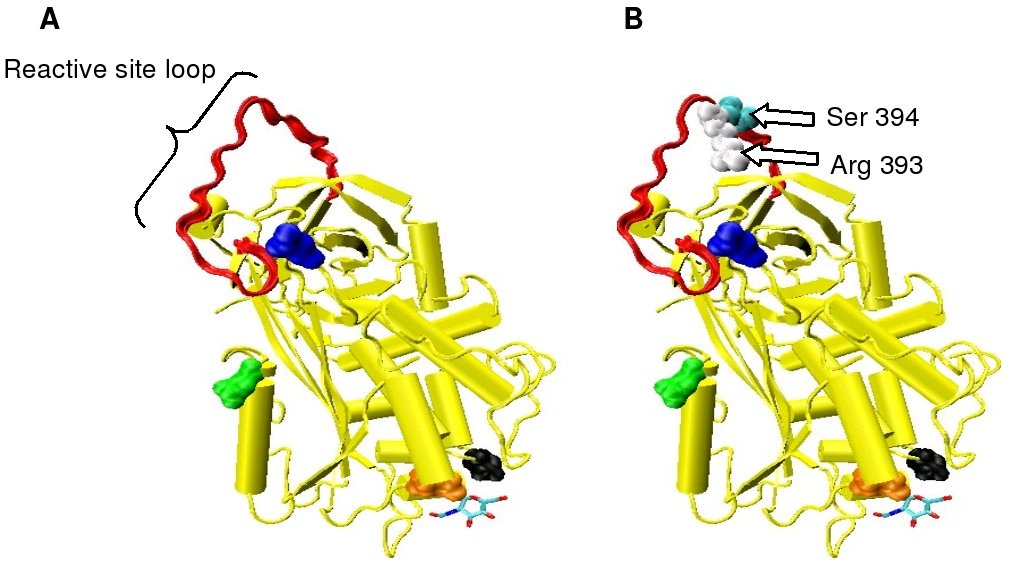 This image was created using a combination of VMD, powerpoint openoffice and GIMP.